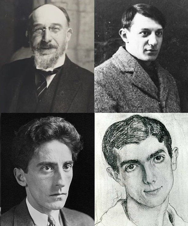 Montage of PD images from Wikimedia Commons